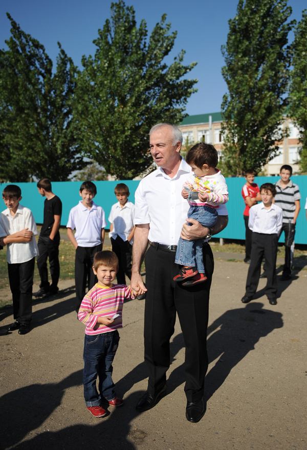 The President of Adygheya Republic in Toutsoj Raion 2010 ( Thhakushina Aslan)